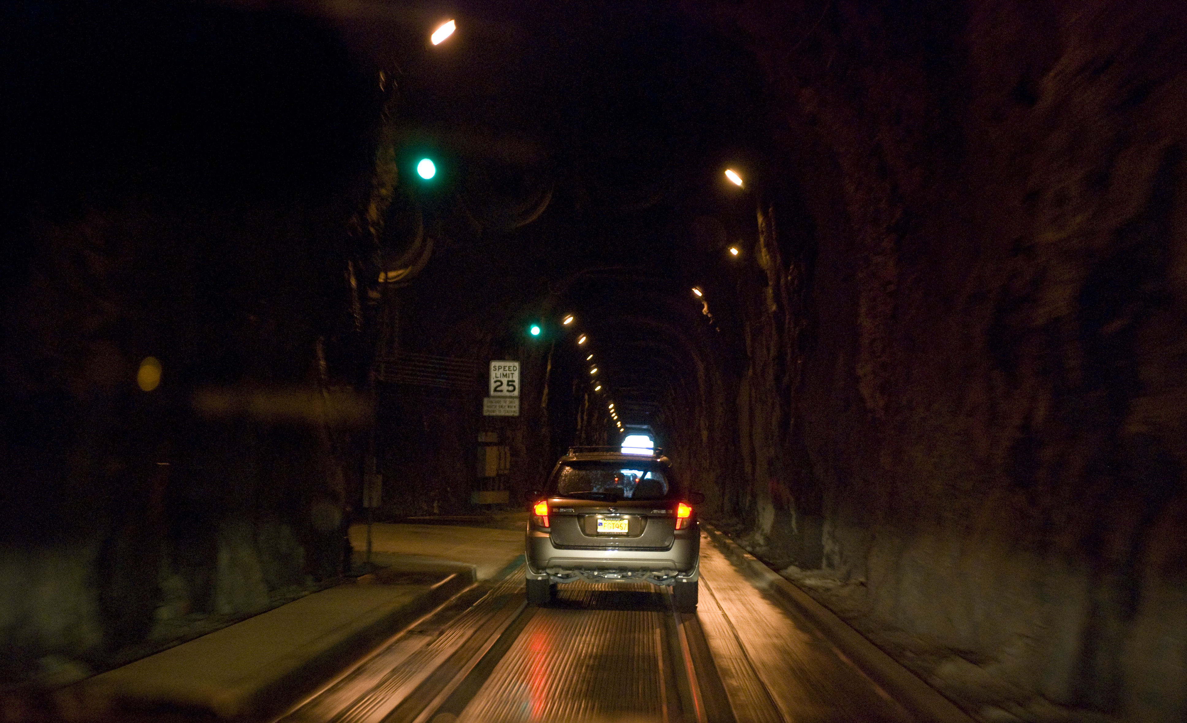 Interior of the Whittier tunnel (Anton Anderson Memorial Tunnel), showing a safe-house to the left (going towards Whittier), and showing how vehicular and rail traffic share a single lane (at different times).